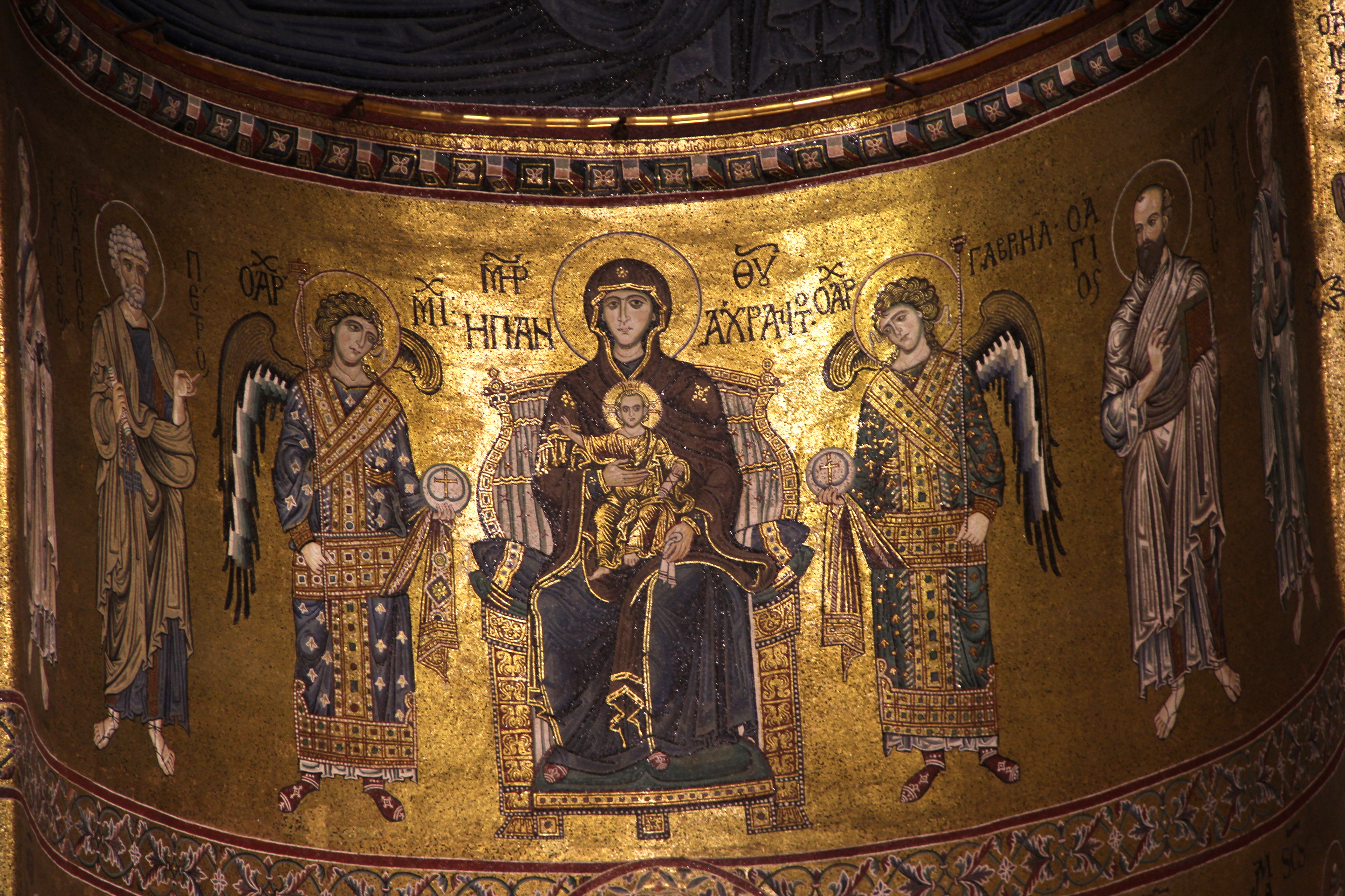 Madona with baby Jesus between the Archangels Saint Michael and Saint Gabriel